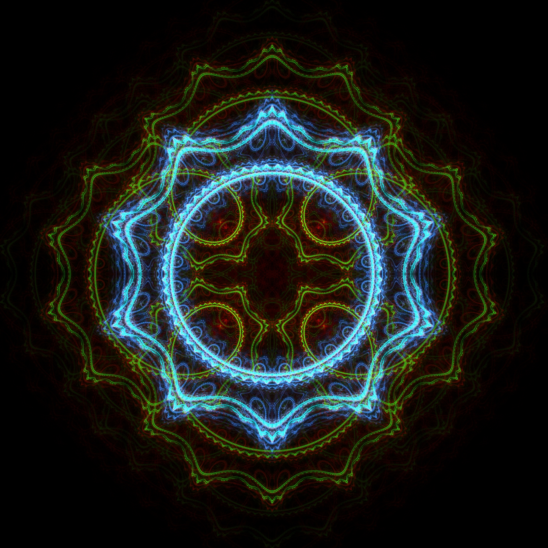 A piece of fractal art created using Apophysis. Source available here.